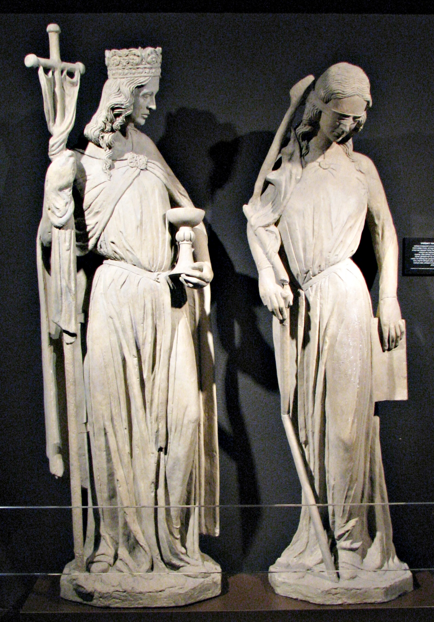 This is a photograph of an exhibit of at the Diaspora Museum, Tel Aviv Beit Hatefutsot. This is a replica of Ecclesia et Synagoga depiction at Strasbourg Cathedral